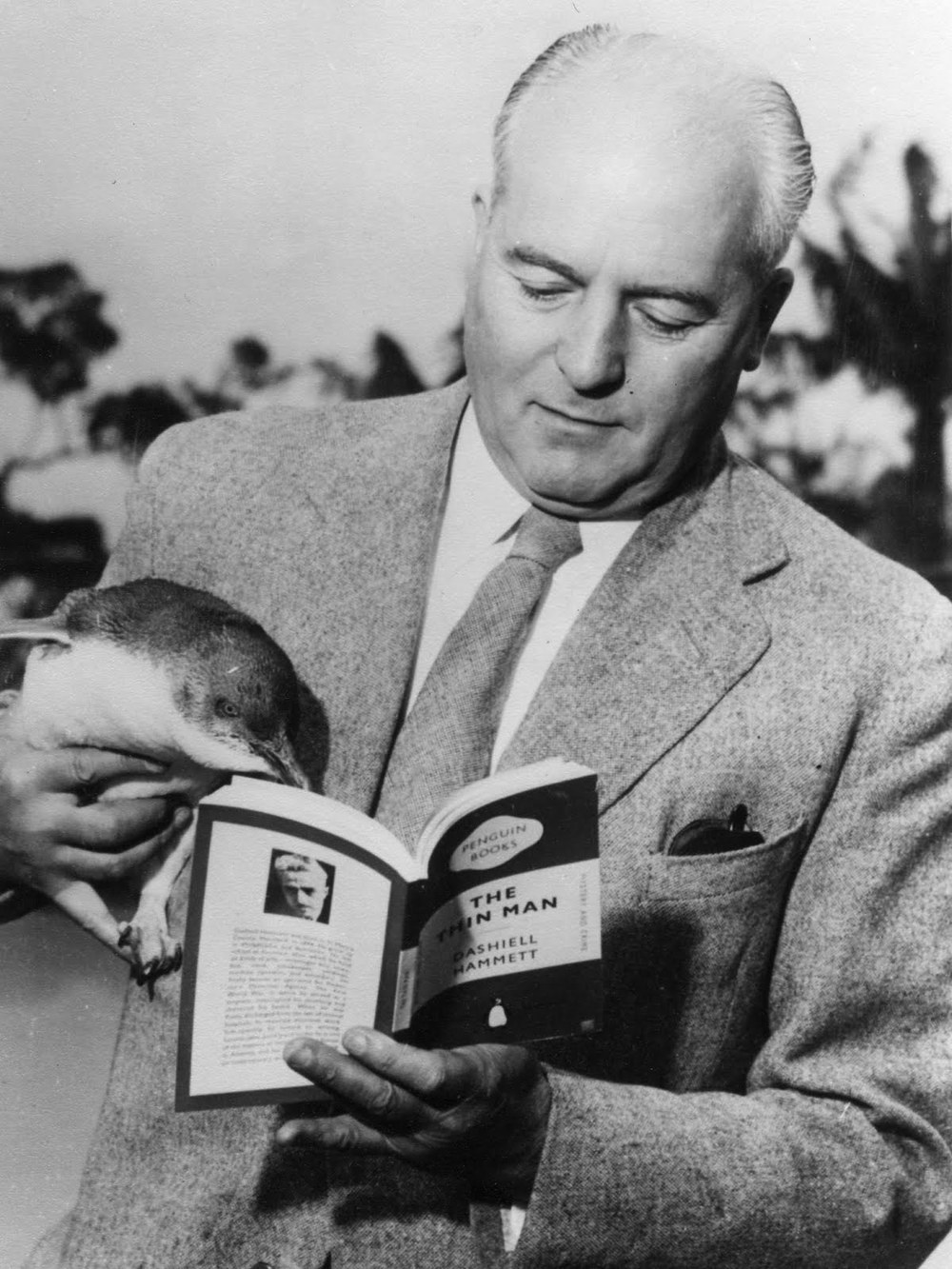 Photo of Penguin founder Sir Allen Lane, London Zoo. Source: Lane Family.